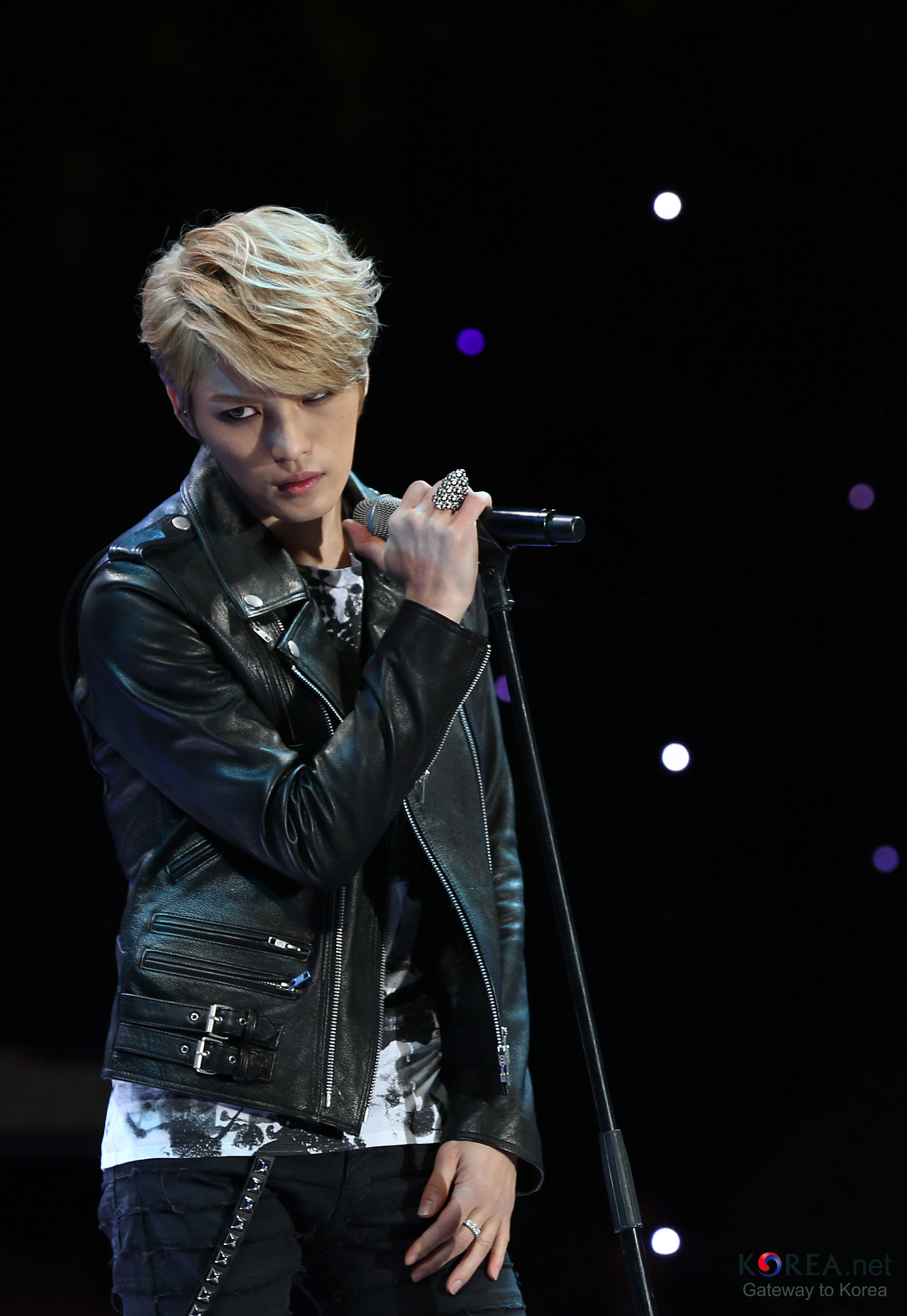 Ariang-themed concert at the Nokjiwon Garden of Cheong Wa Dae. Singer JYJ Jaejoong performs during the concert.